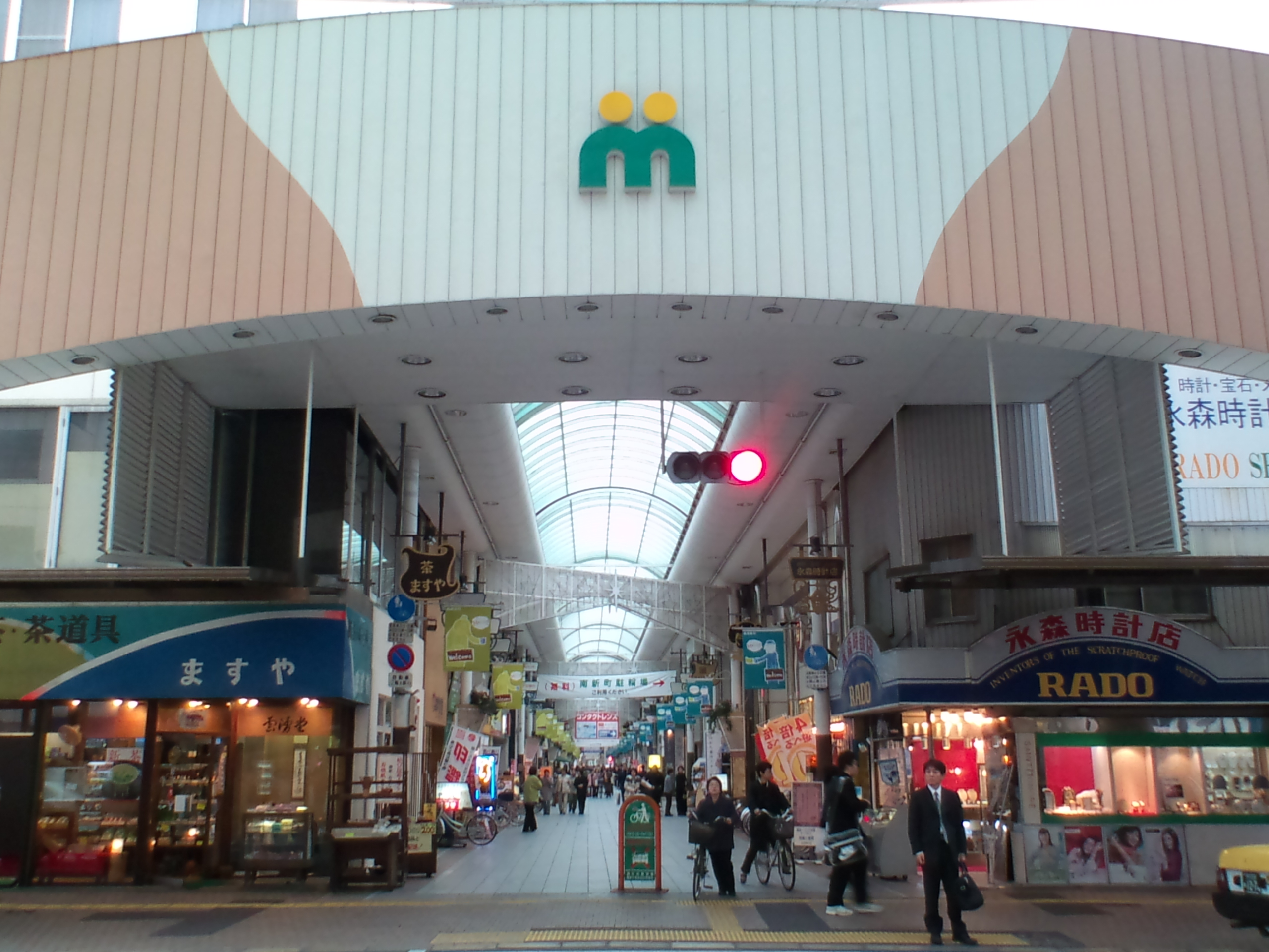 Minami-Shinmachi shōtengai. Takamatsu, Kagawa.